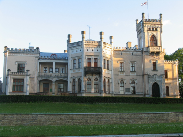 The New Castle in Alūksne, Lettland